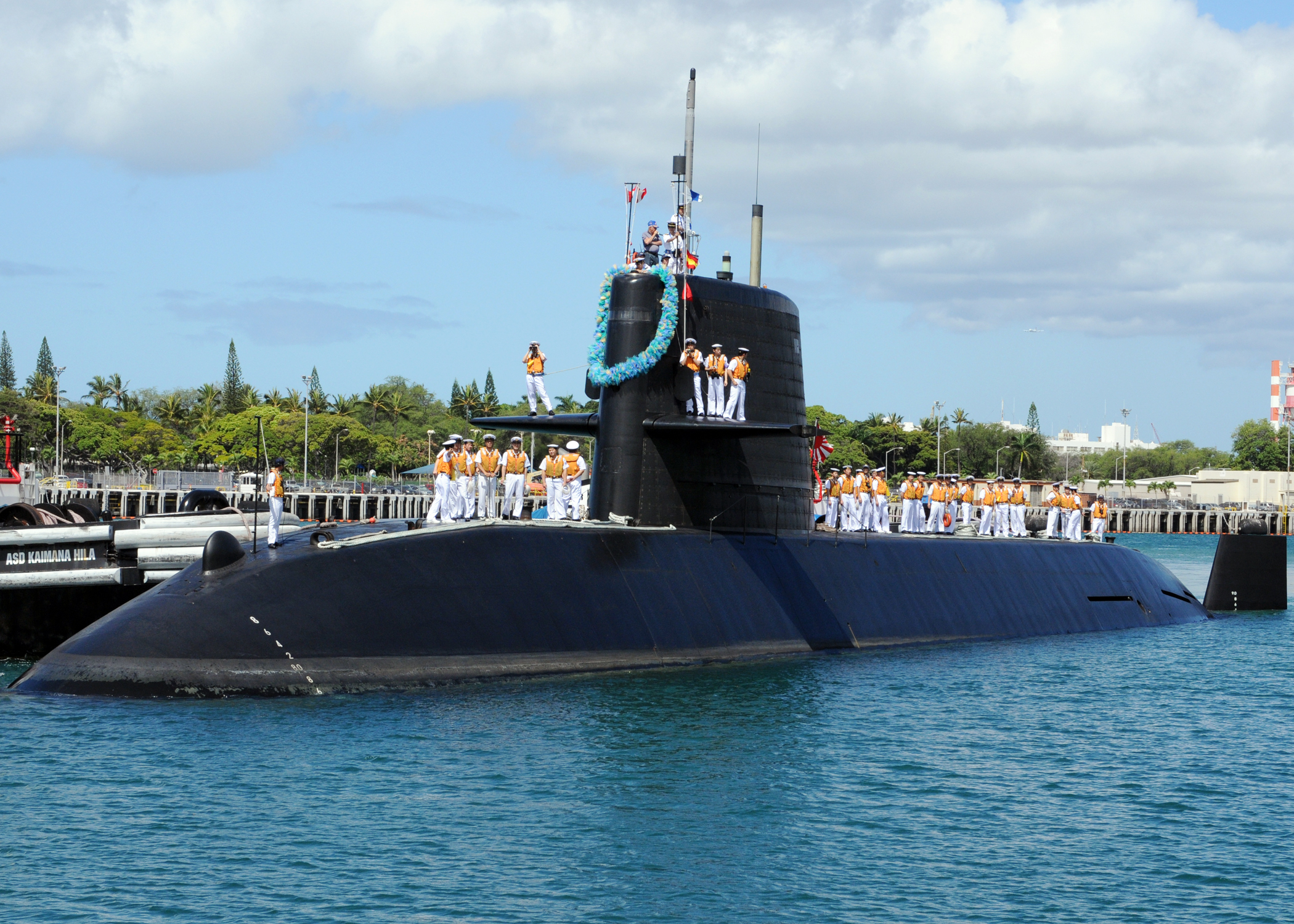 PEARL HARBOR (June 21, 2010) The Japan Maritime Self-Defense Force Oyashio-class submarine J.S. Mochishio (SS 600) arrives at Joint Base Pearl Harbor-Hickam to support Rim of the Pacific (RIMPAC) exercises. RIMPAC is a biennial, multi-national exercise designed to strengthen regional partnerships and improve multi-national interoperability. (U.S. Navy photo by Mass Communication Specialist 2nd Class N. Brett Morton/Released)